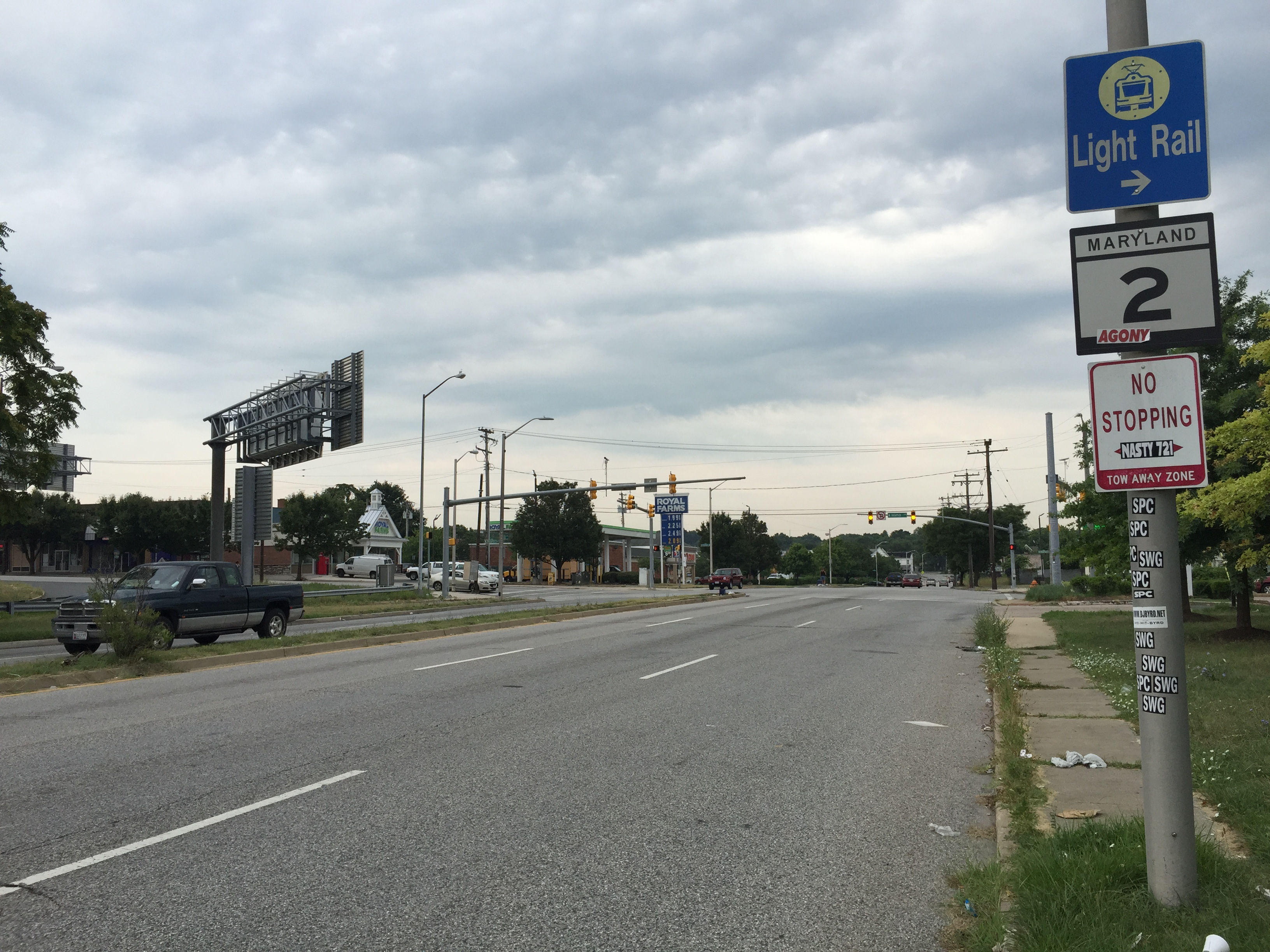 View south along Maryland State Route 2 (Potee Street) just north of Maryland State Route 173 (Patapsco Avenue) in Baltimore City, Maryland